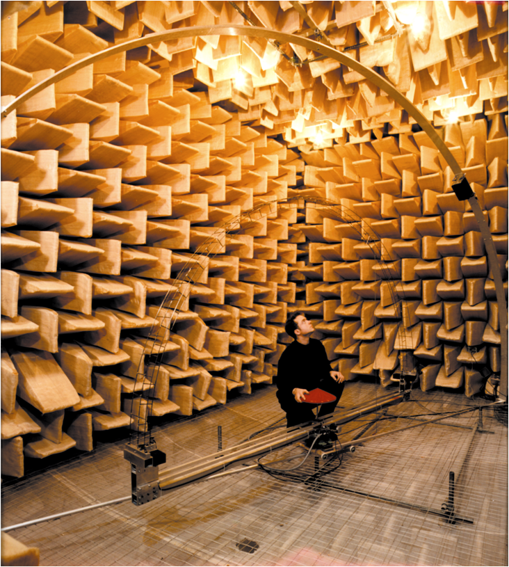 Measuring a diffuser in the anechoic chamber at University of Salford